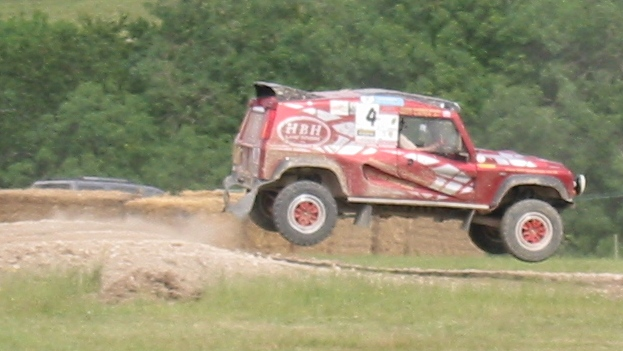 A Bowler Wildcat during the 2005 Goodwood Festival of Speed. This picture is cropped.